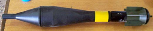 A photo of an Armbrust rocket from the Iraq OIG group.